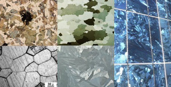 Compilation of images displaying polycrystalline structures composed of small crystals. List of used images—clockwise from top left: Microscopic view of malleable iron Grain-oriented electrical steel Polycristalline silicon solar cells Hot-dip galvanized metal surface using zinc Microscopic view of acid etched metal highlighting grain boundaries